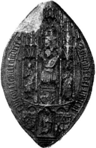 The seal of James Kennedy, bishop of St Andrews.